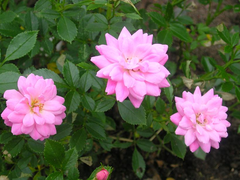 Rosa 'Easy Cover'